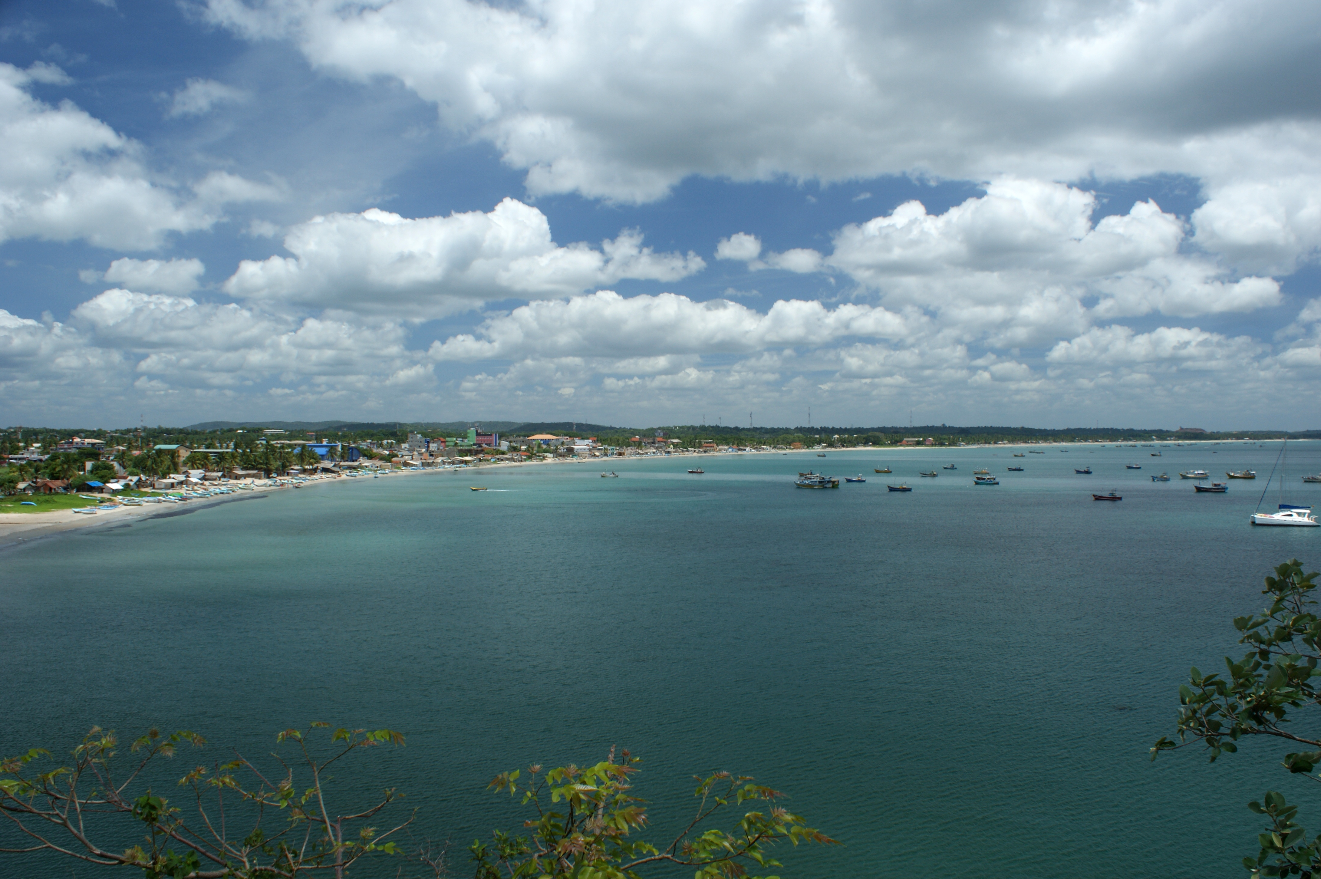 Bay of Trincomalee